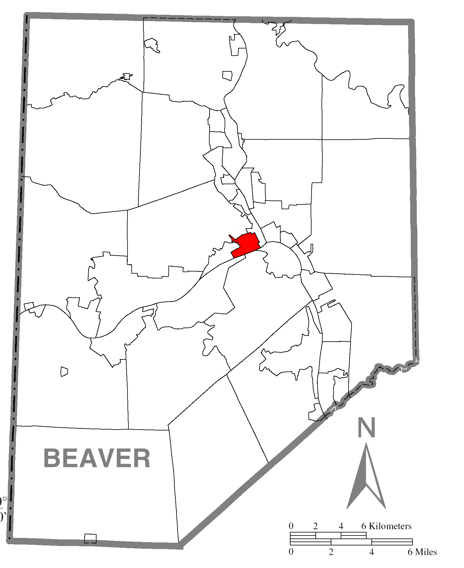 A map of Beaver County showing Beaver, Pennsylvania (alternate) highlighted on the map.